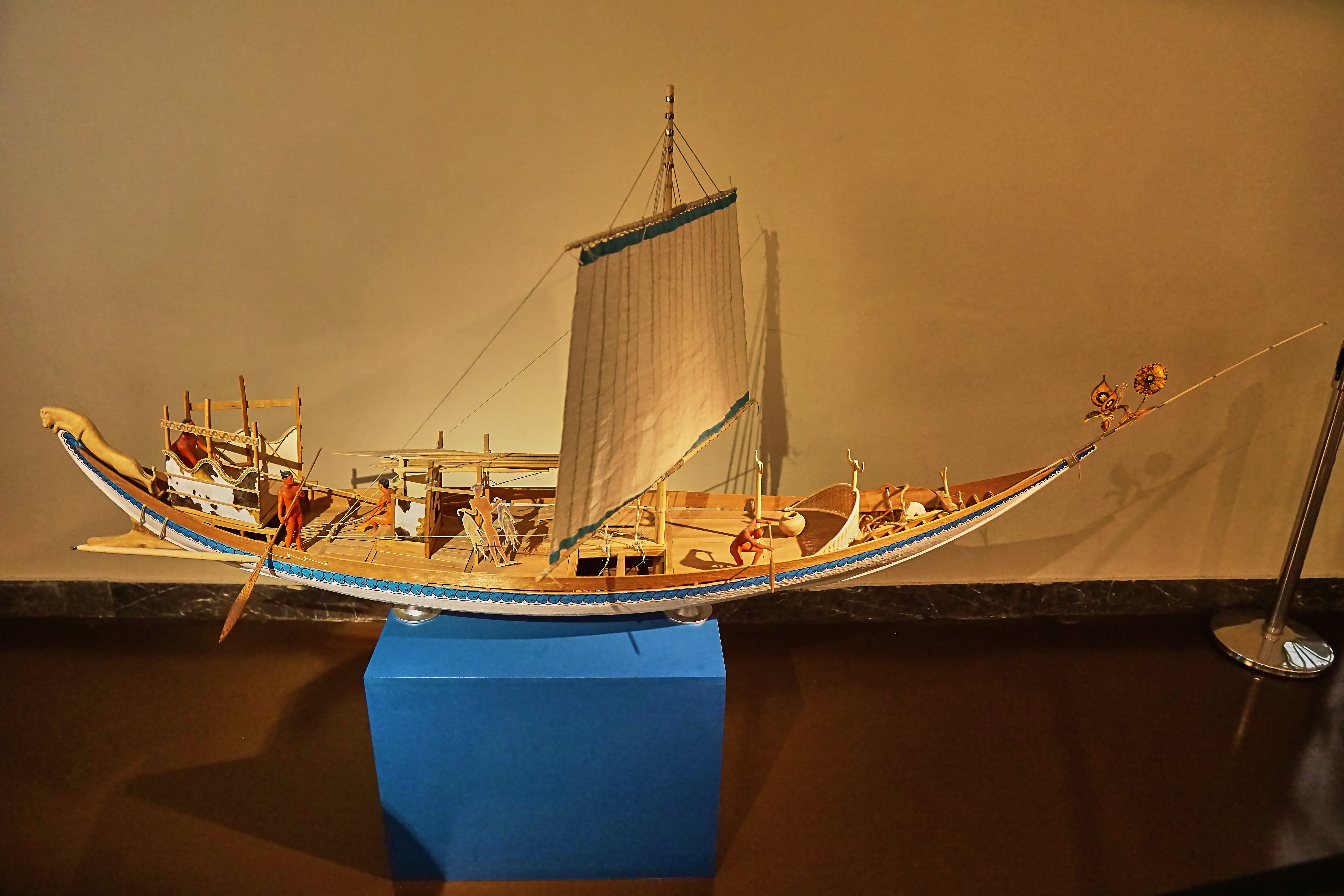 Wooden model of a ship. With a ship model, the Institute of Classical Archaeology, University of Heidelberg, participates in the celebration for the 150th anniversary of the founding of the National Archaeological Museum. Its construction was based on the representations of ships, as those are preserved in the miniature fresco of the Fleet that decorated the West House of Akrotiri of Thera, who, being daring seafarers, visit various coastal cities. One of the cities could be identified with Akrotiri, while another with Knossos. In any case, it is certain that this is an illustrated narrative of a journey across the Mediterranean, which offers useful information on fauna, flora, technology, navigation, apparel, weaponry and even on the "urban" environment of the era (about 1700 B.C.). National Archaeological Museum of Athens. Athens, Greece. Text: Museum Inscription.